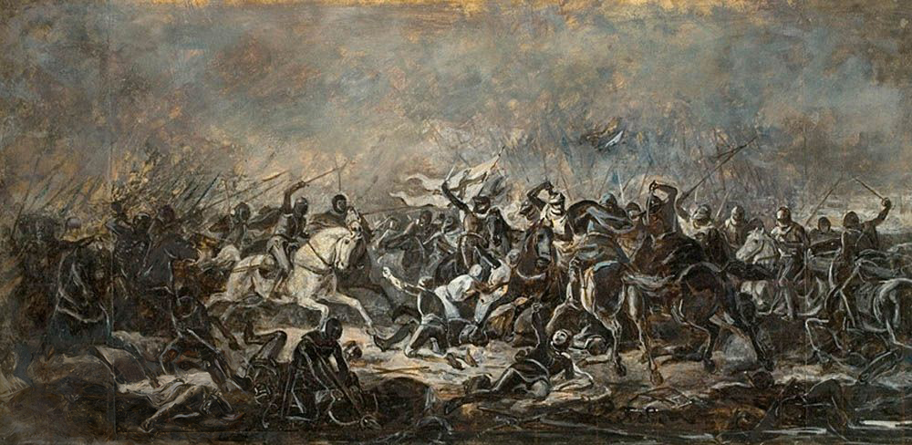 Feliks Sypniewski "Battle of Grunwald". Watercolors, ink and pencil mix, on paper with cardboard backing, circa 1848-1850